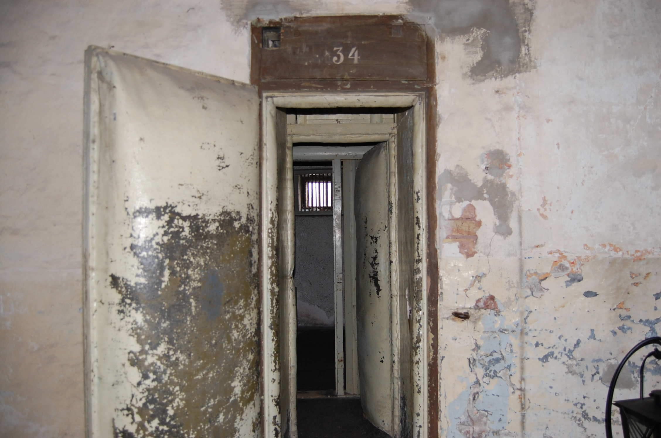 Isolation Cell at the women's prison in Landskrona citadel